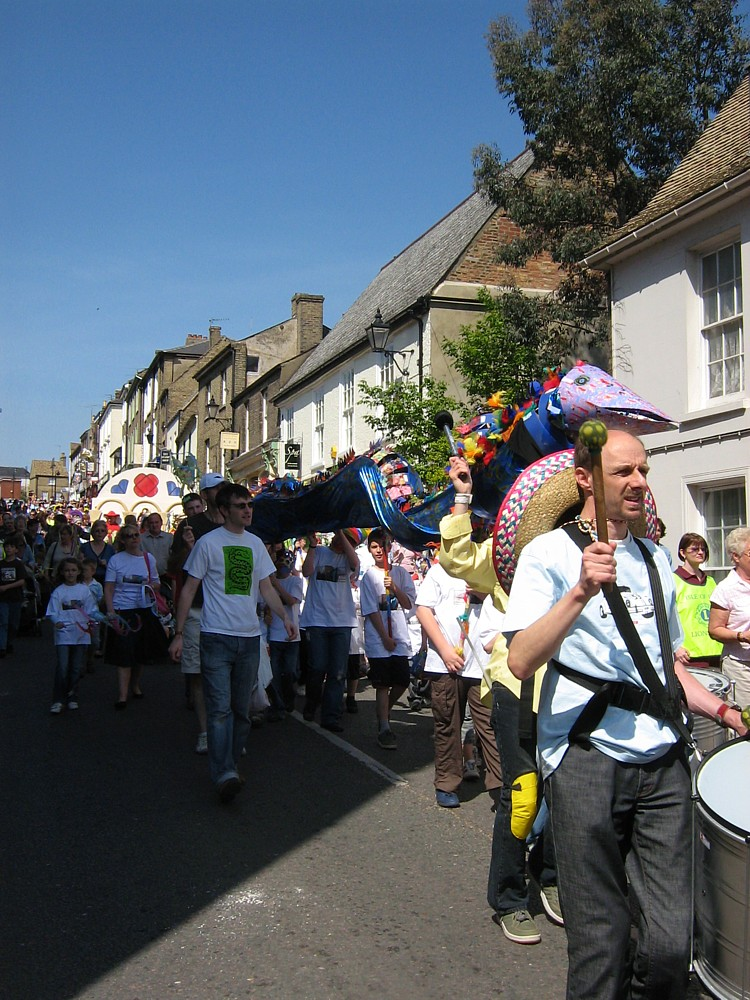 Eel day parade, Ely. taken by gwendraith 28th April 2007